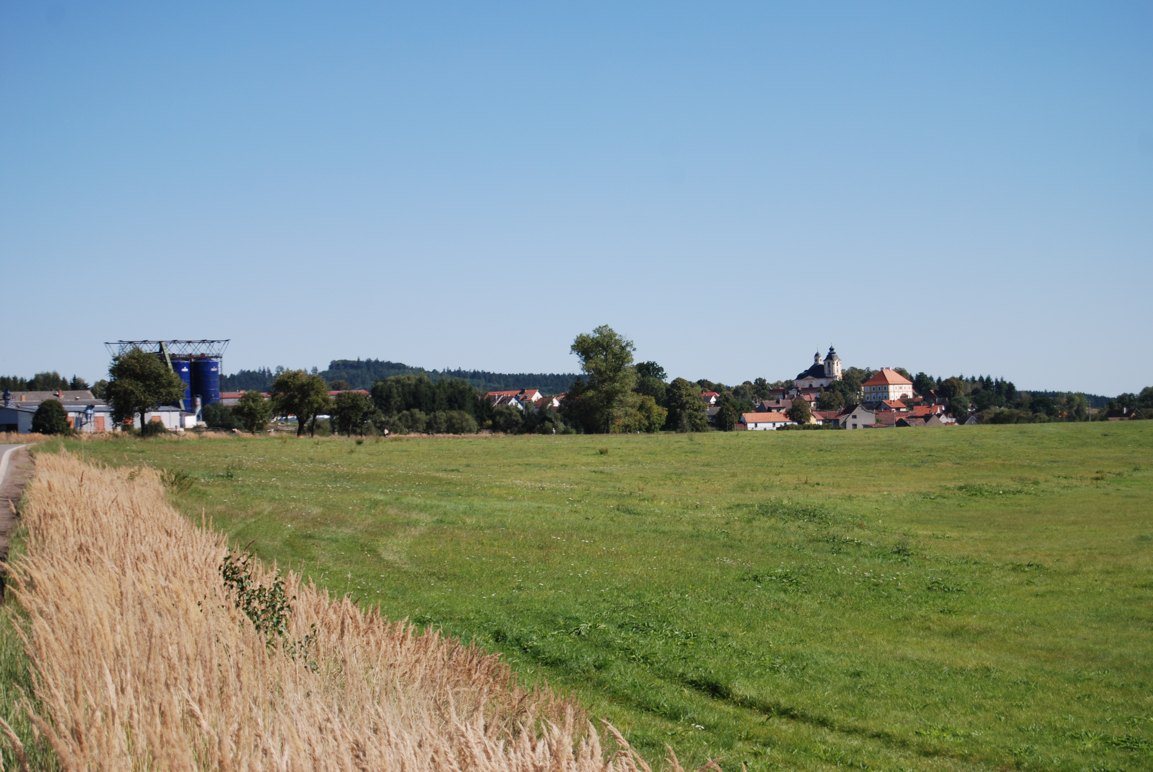 Sepekov village in Pisek District, Czech Republic.